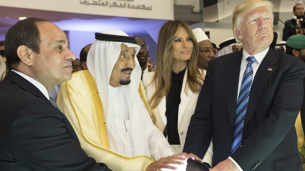 President Donald Trump and First Lady Melania Trump join King Salman bin Abdulaziz Al Saud of Saudi Arabia, and the President of Egypt, Abdel Fattah Al Sisi, Sunday, May 21, 2017, to participate in the inaugural opening of the Global Center for Combating Extremist Ideology. (Official White House Photo by Shealah Craighead)